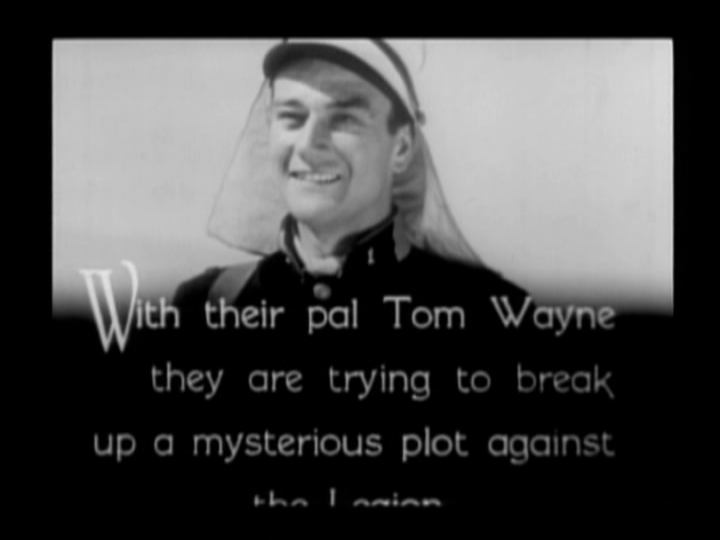 Screenshot of the title sequence to episode 12 of the film serial The Three Musketeers (1933), featuring John Wayne.